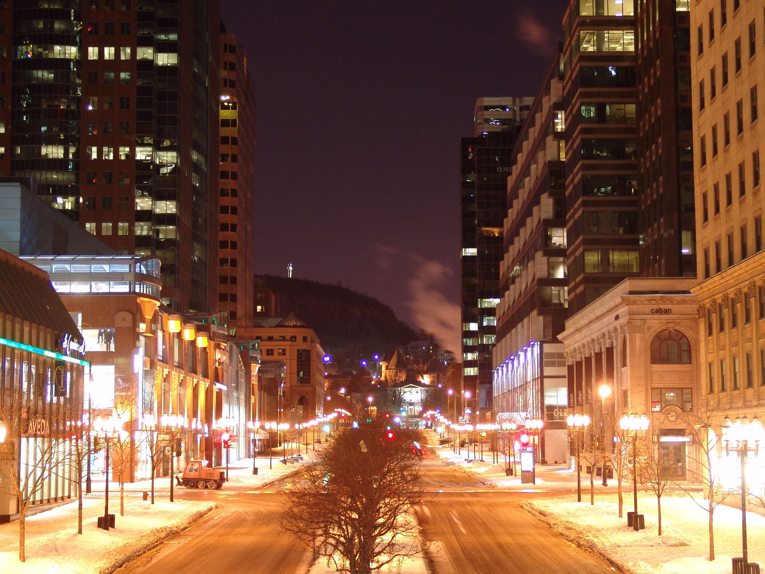 Mcgill College Avenue from below Saint-Catherine Street.